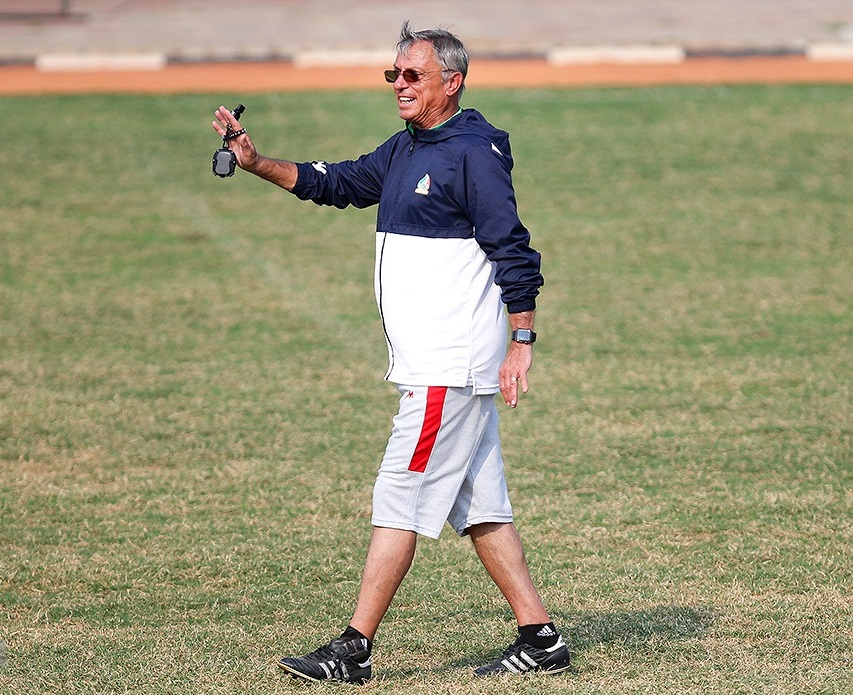 Zlatko Kranjčar